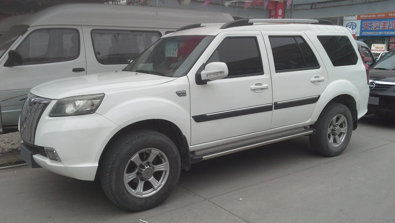 Foday Explorer 6 photographed in Yinchuan, Ningxia province, China.